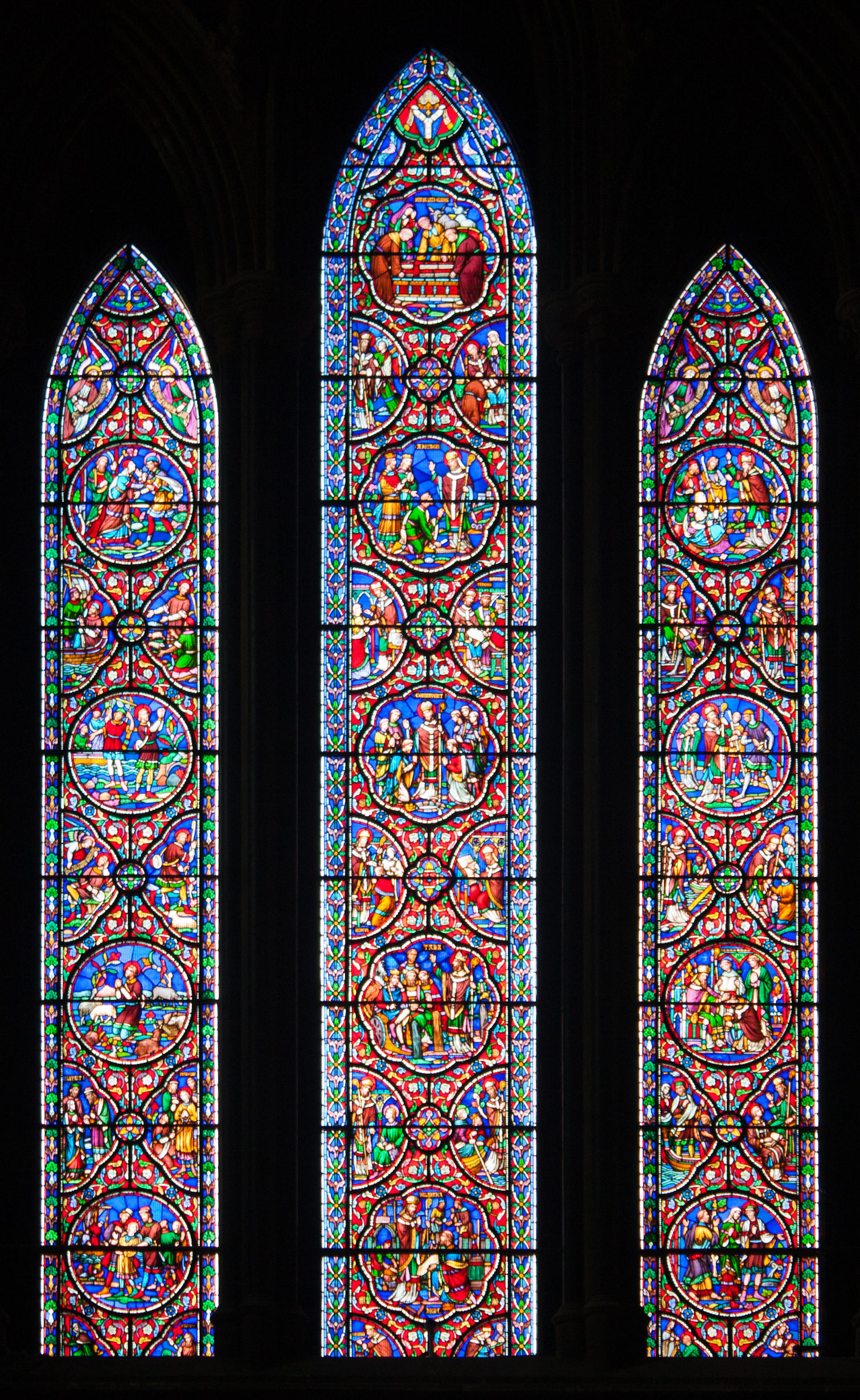 Great west window in the nave, depicting the life of Saint Patrick. Created by William Wailes of Newcastle in 1865.